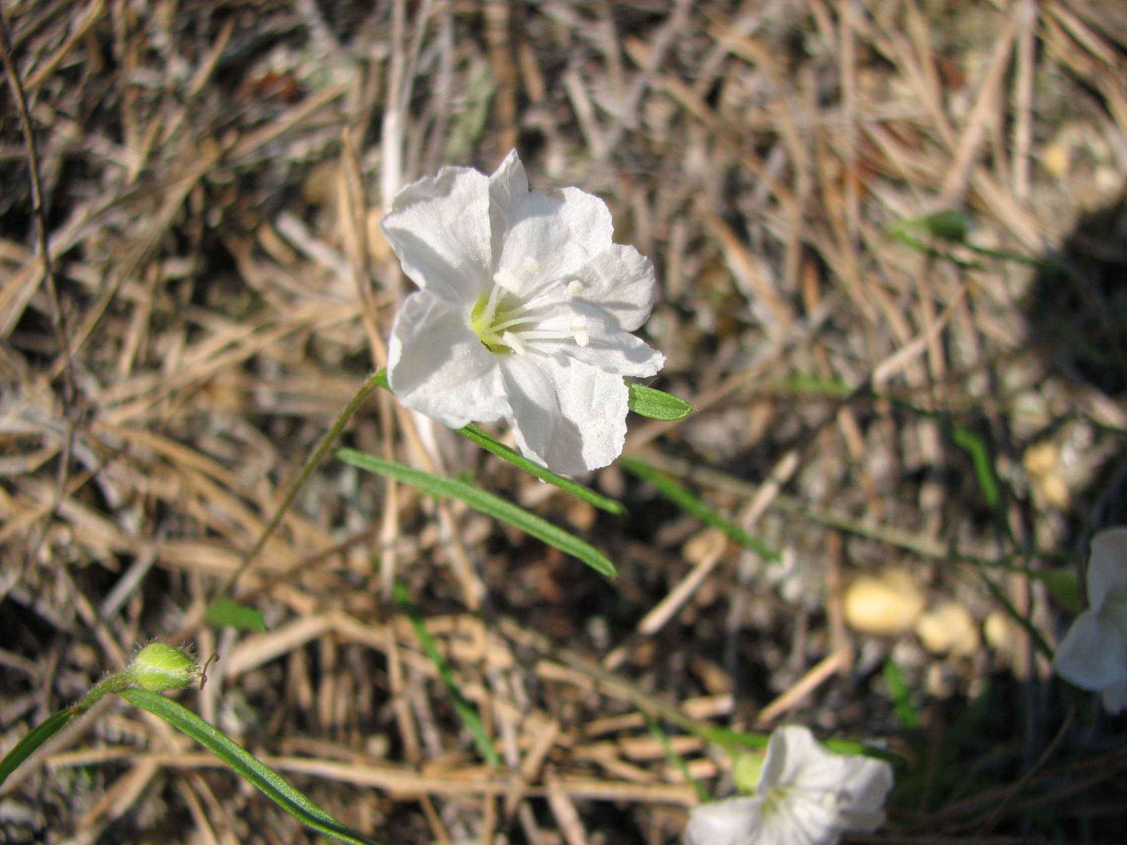 Flower of Stylisma pickeringii var. pickeringii, Pickering's Dawnflower or Pickering's Morning Glory, near Batsto, New Jersey.